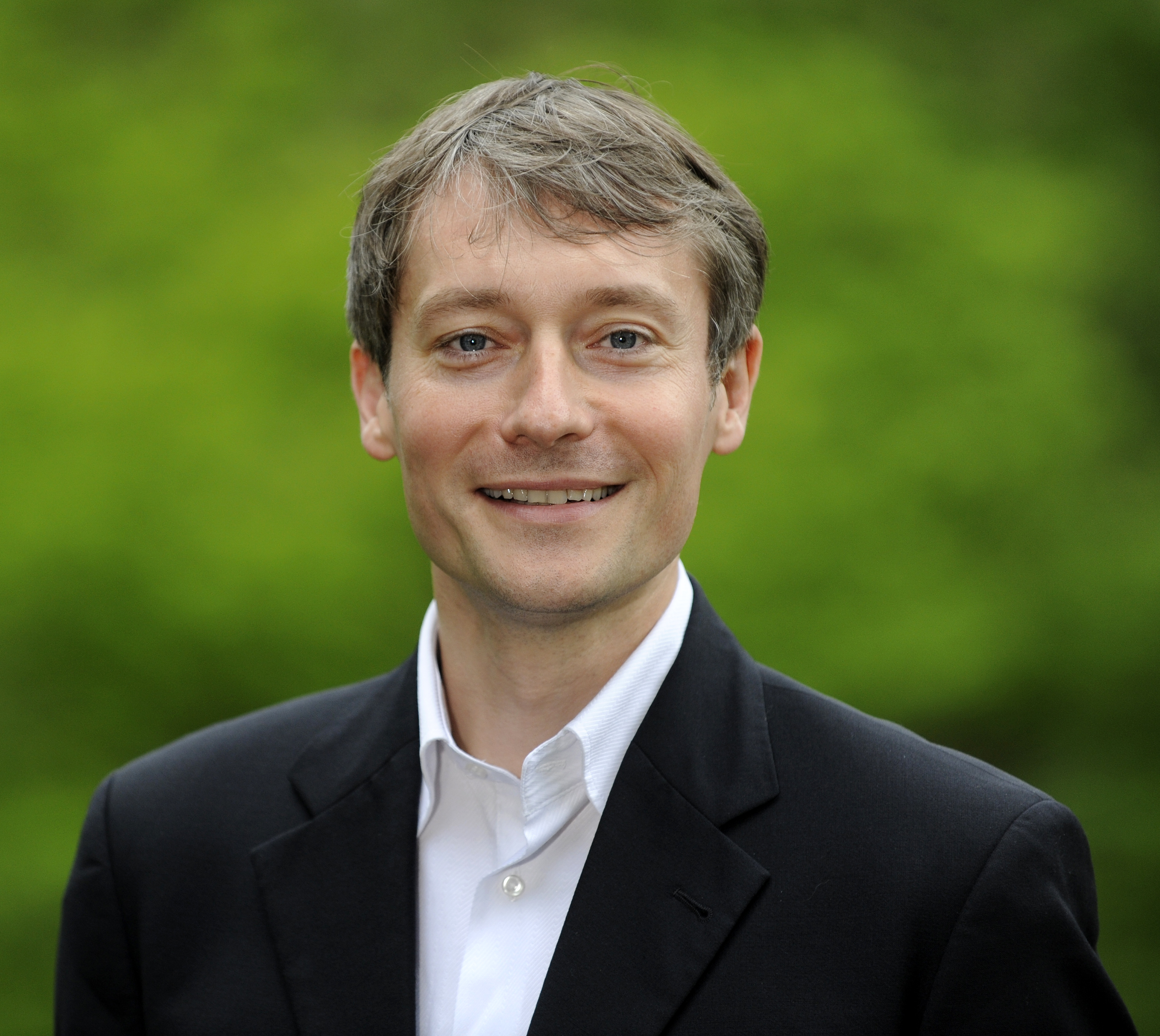 Laurent Hénart, French Deputy of Meurthe-et-Moselle.